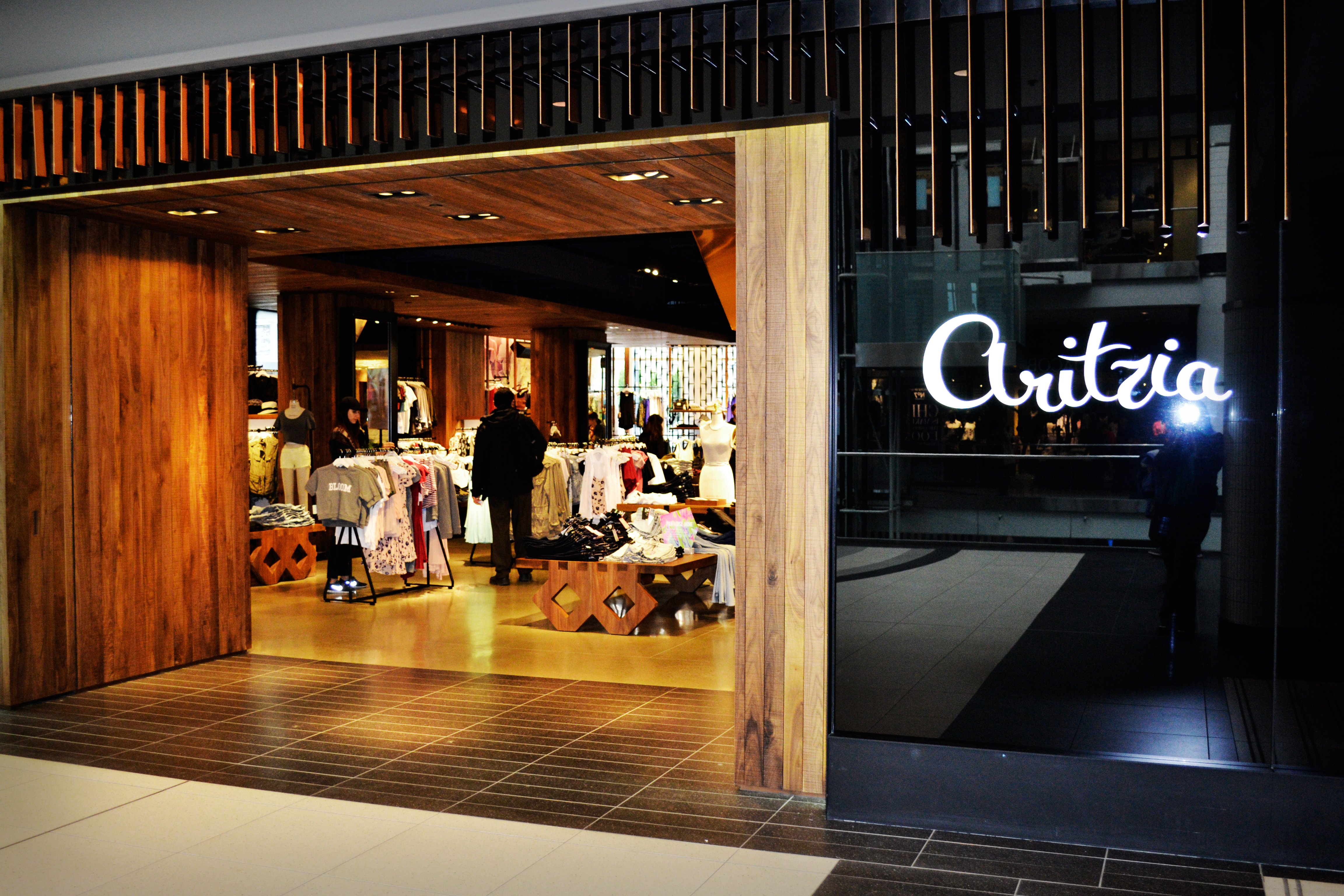 This is a photo of the Aritzia store in downtown Toronto, Canada. If you make use of this image, please make sure you link to from your own site!